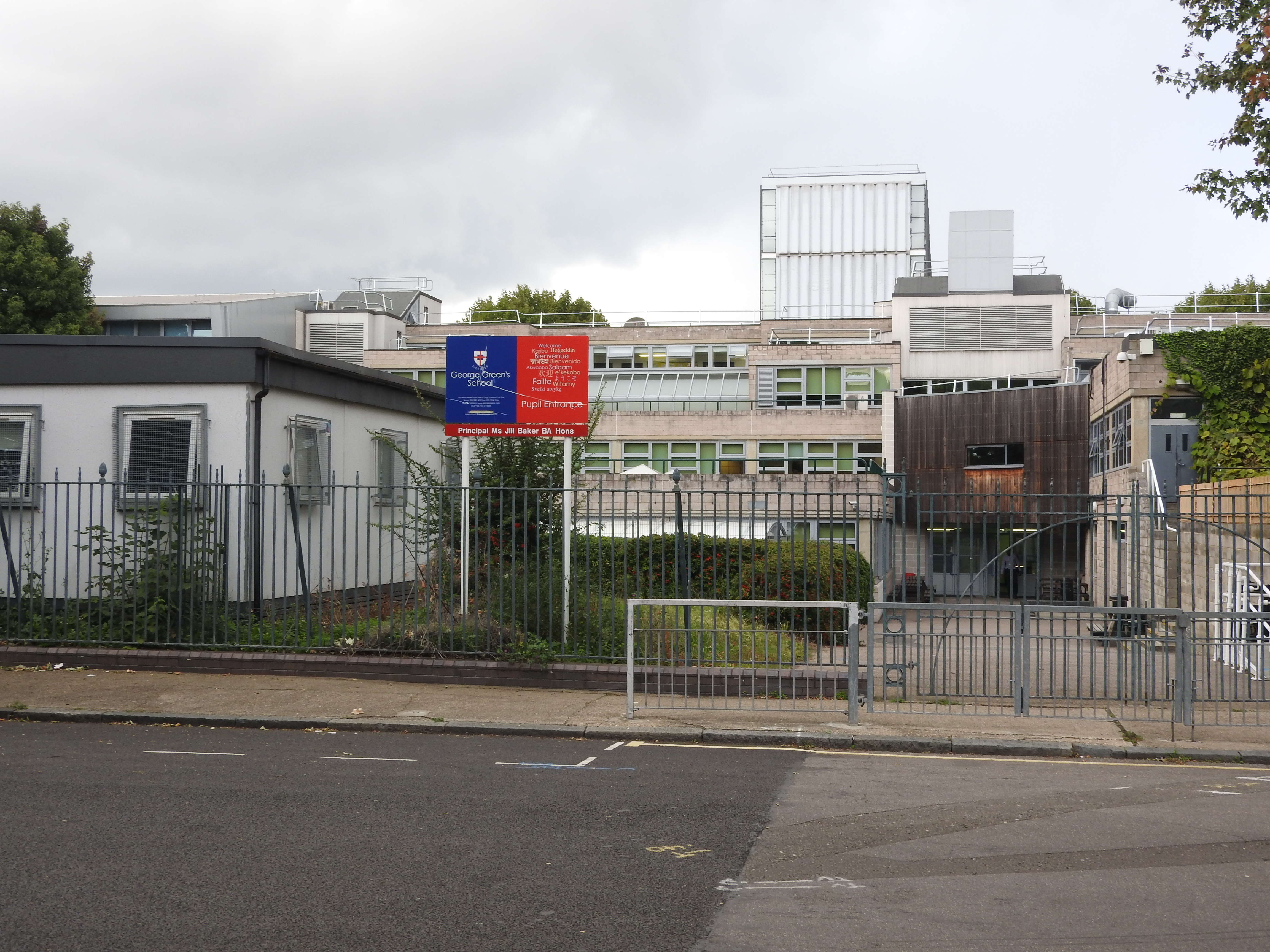 Rear entrance to George Green School in Saundersness Road on the Isle of Dogs